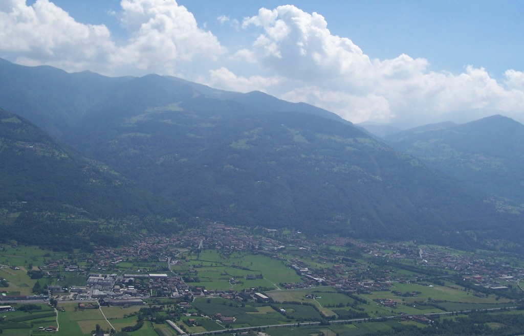 Artogne, Val Camonica